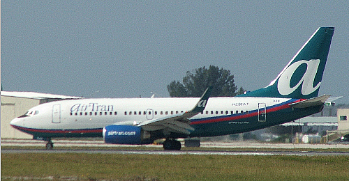 AirTran Airways Boeing 737-700 at Sarasota-Bradenton International Airport